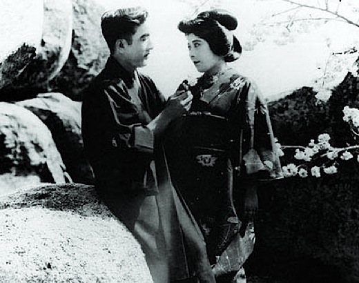 Screen shot of the 1919 film The Dragon Painter featuring actor Sessue Hayakawa and actress Tsuru Aoki.